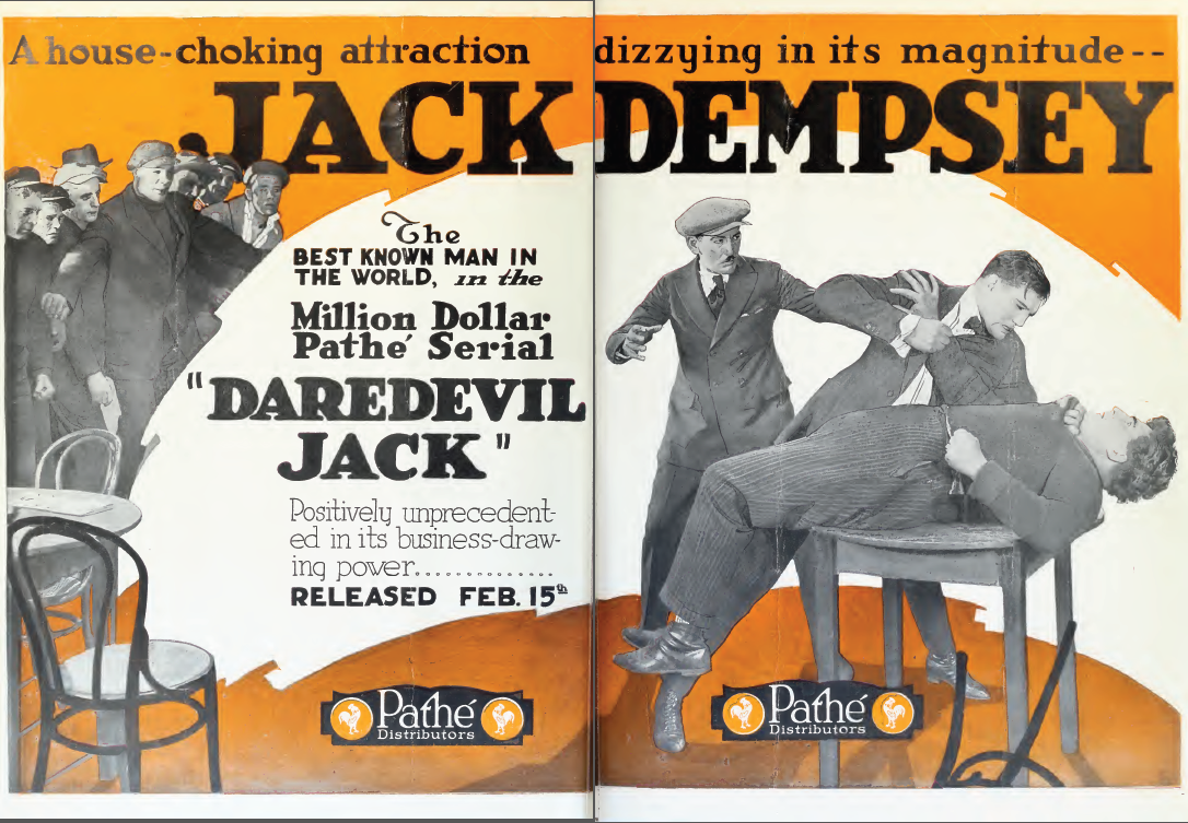 Jack Dempsey in Daredevil Jack, a film directed by W S Van Dyke